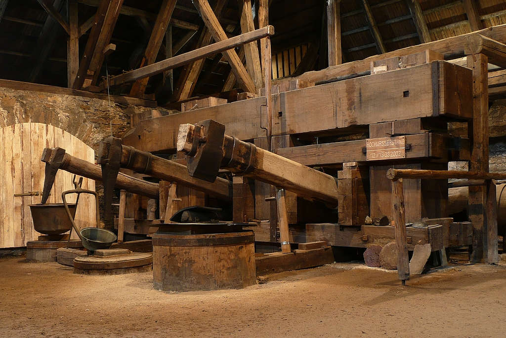 Olbernhau-Grünthal, historic copperworks, trip hammers.